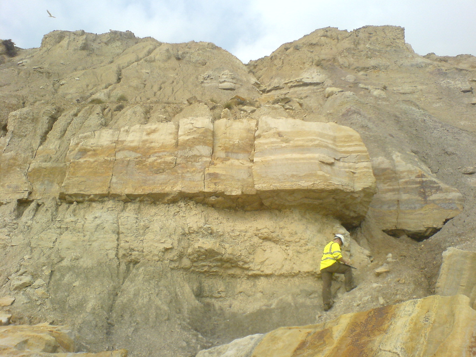 Lee Ness Ledge